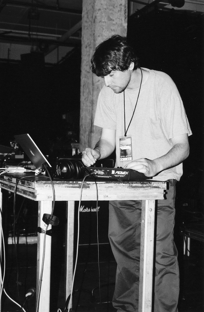 Author: Alex Reynolds Taken at Mutek 2004 (Montréal) © 2004 Alex Reynolds